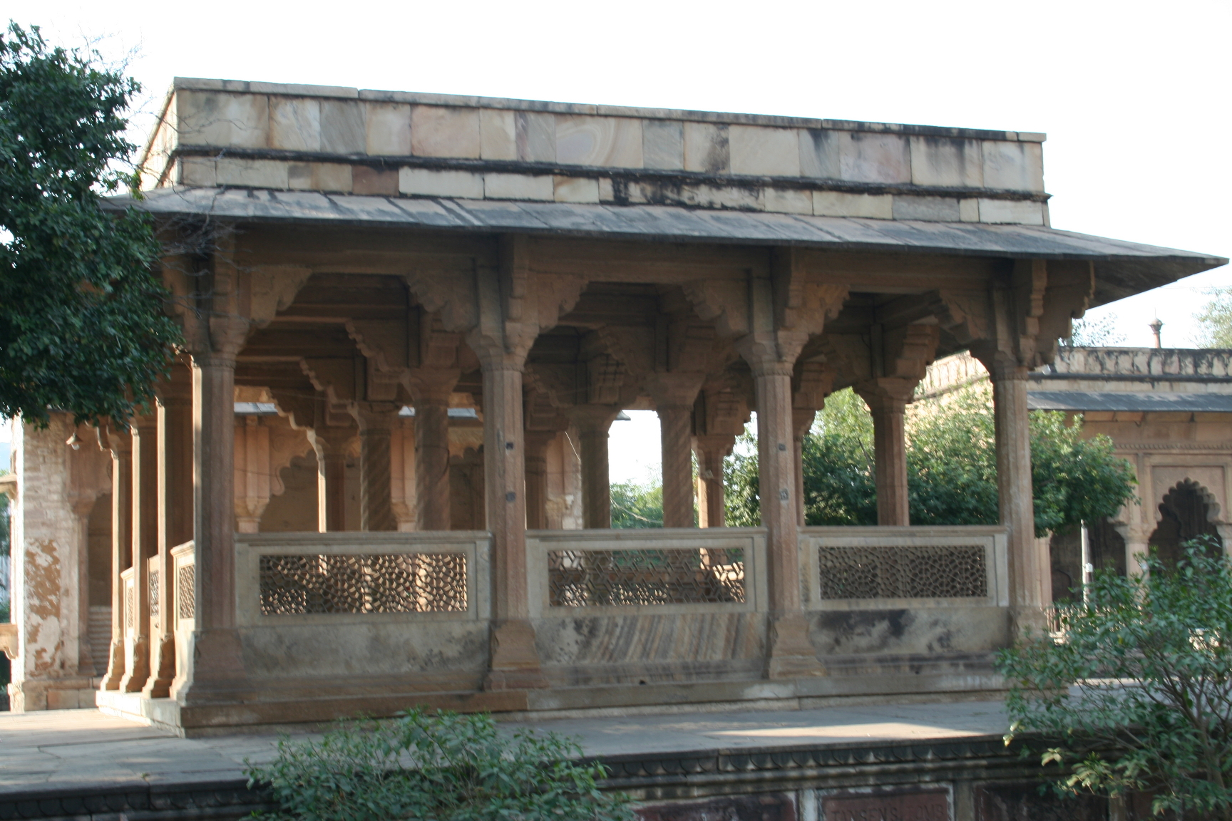 Tomb of Tansen and two mosque's